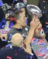 Patriots quarterback Tom Brady holds up Vince Lombardi trophy after defeating the Atlanta Falcons in Super Bowl LI.